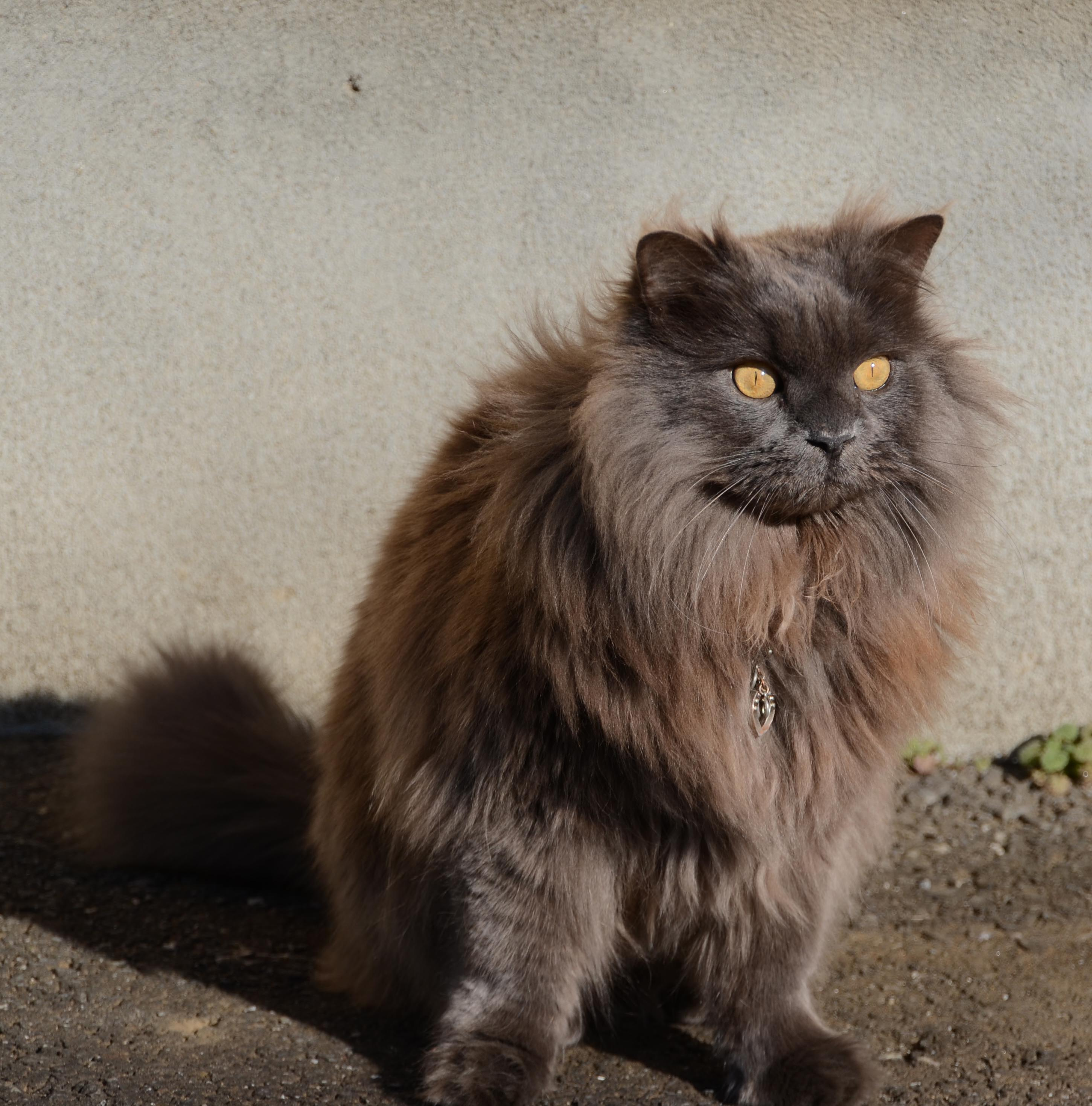 Photograph of a Tiffany cat called Kumori (曇). Tsukuba, Japan.